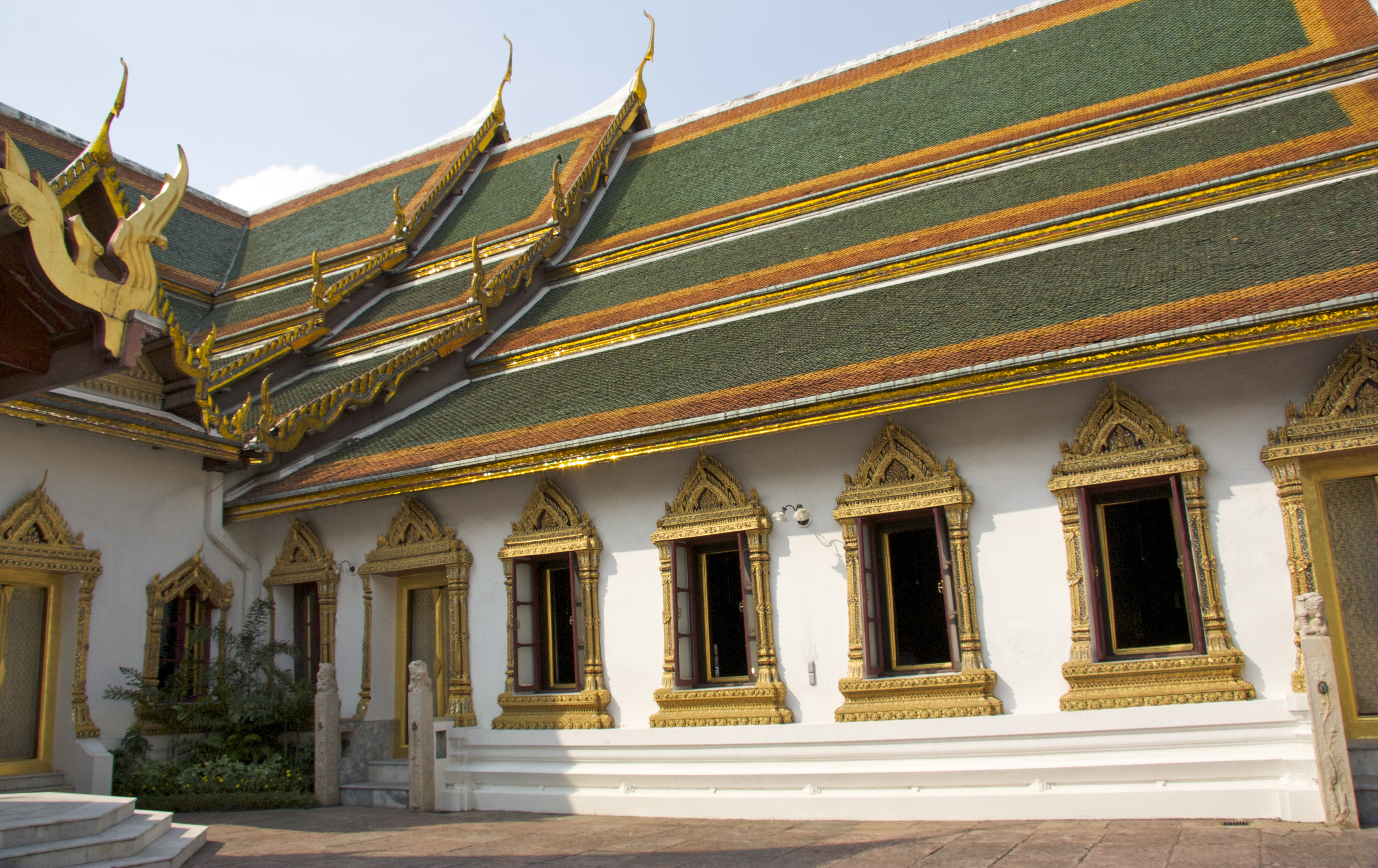 The The Amarin Winichai Throne Hall, Grand Palace, Bangkok, Thailand